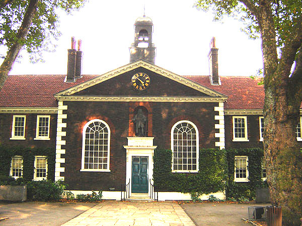 The Geffrye Museum portico, Kingsland Road, Hackney, London. The buildings were constructed as almshouses. 3 September 2005. Photographer: Fin Fahey